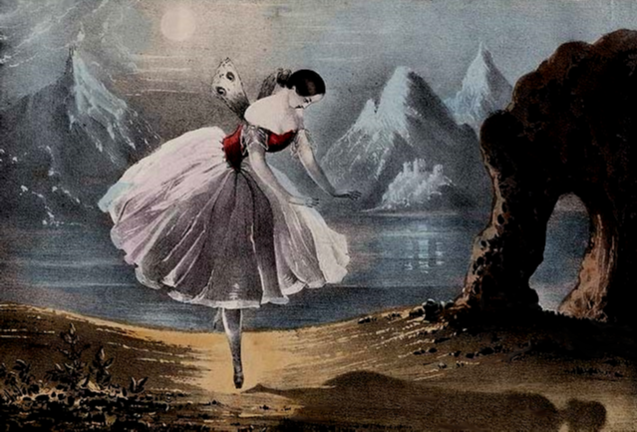 Lithograph of the ballerina Carlotta Grisi (1819-1899) in the Pas de l'ombre (Dance of the Shadow) from the choreographer Jules Perrot (1810-1892) and the composer Cesare Pugni's (1802-1870) ballet Ondine, ou La Naïade (a.k.a. La Naïade et le pêcheur).